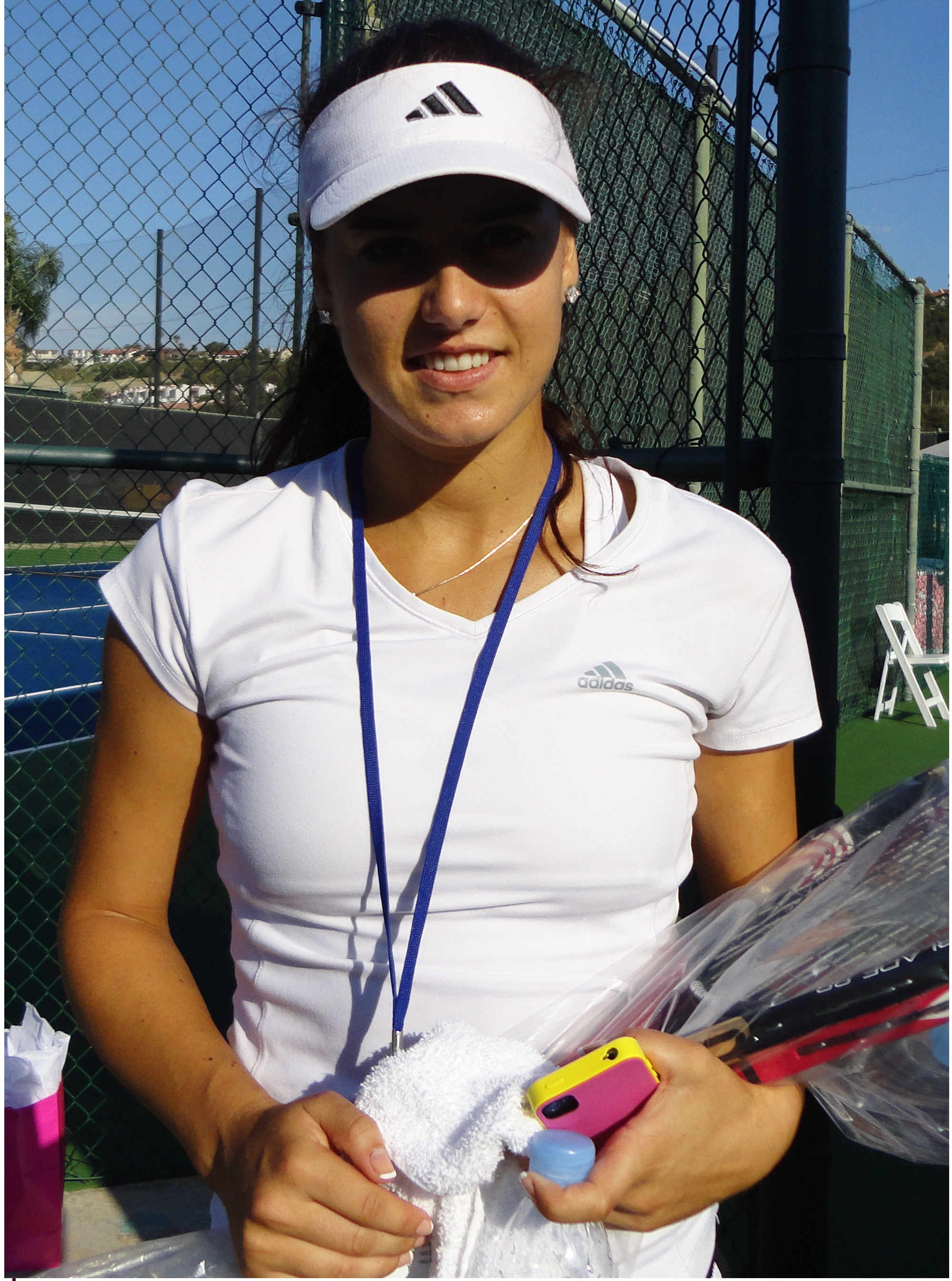 Sorana Cîrstea of Romania, professional tennis player of WTA